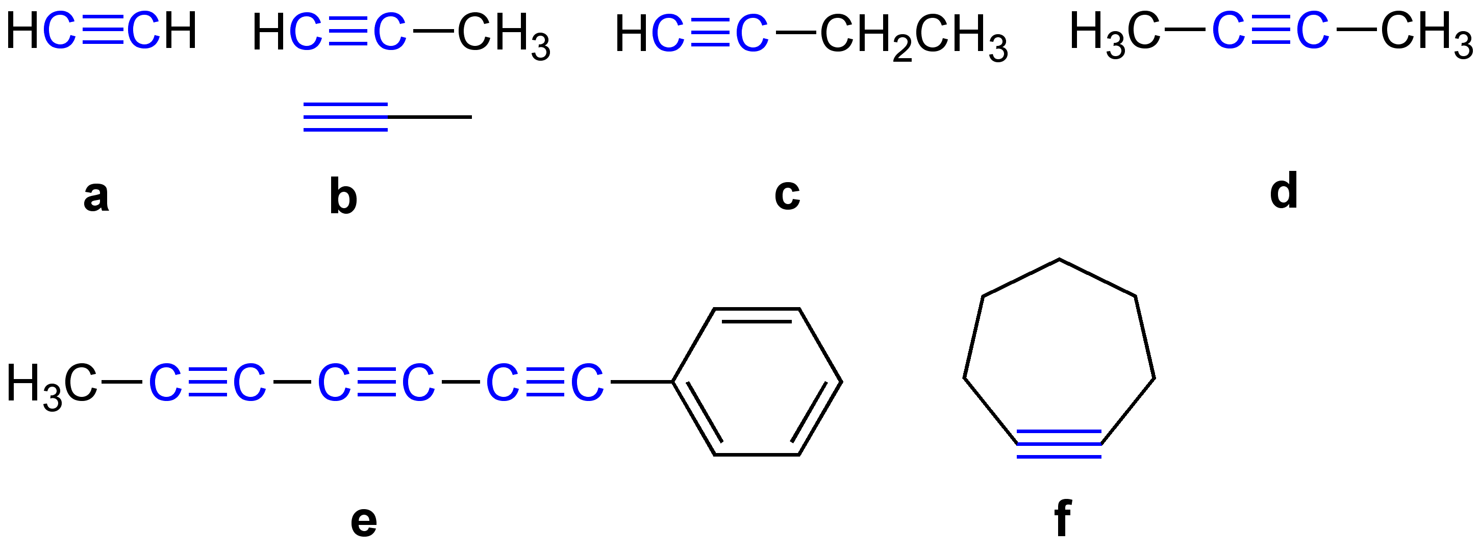 Alkyne general formulae